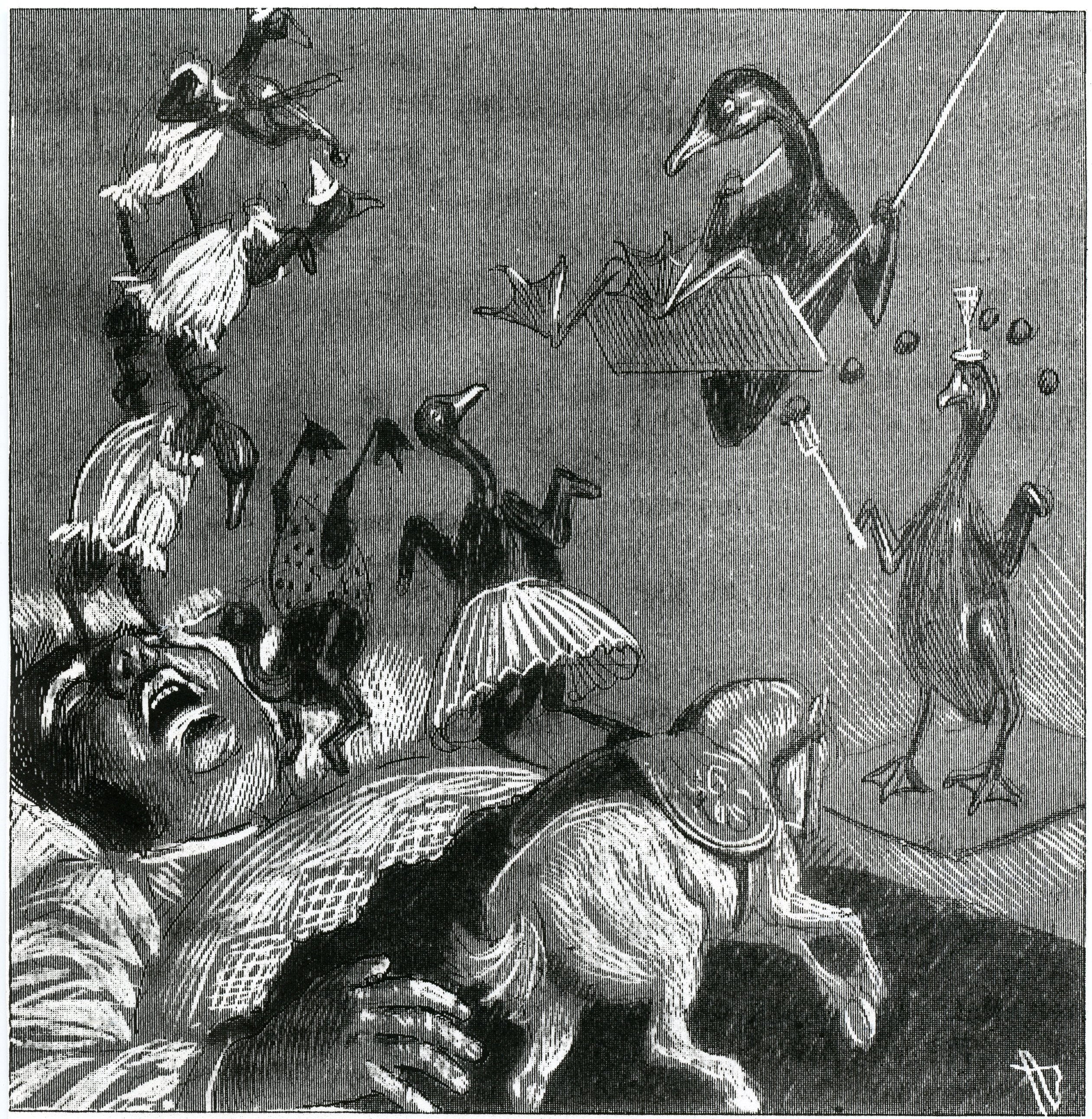 Feast of Saint Martin.